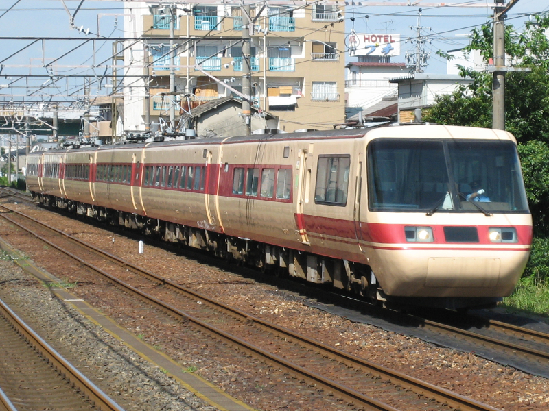 JR Central 381 series EMU on a "Shinano" service, in Kasugai, Aichi